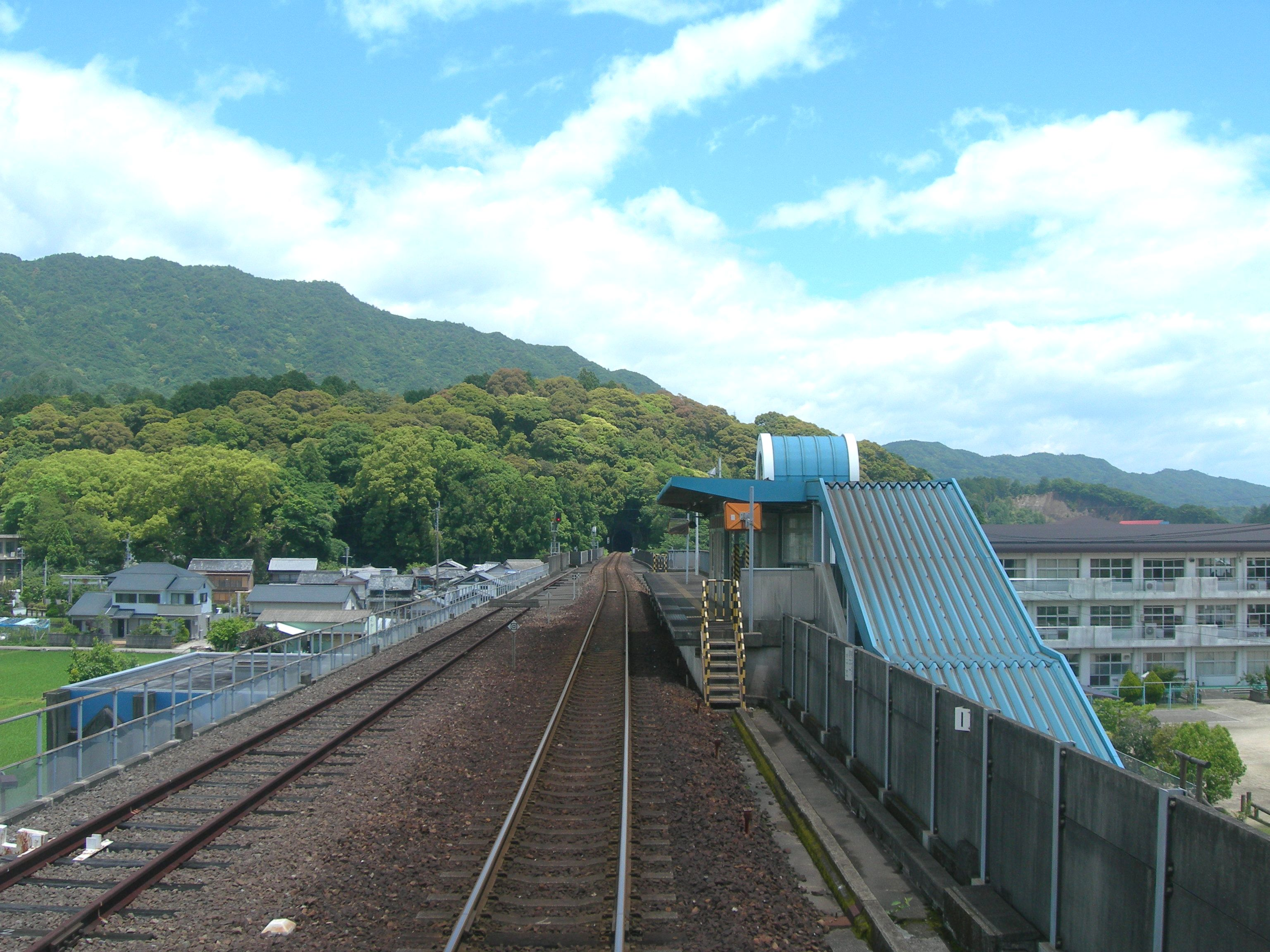 Asa Kaigan Railway Shishikui Station platform